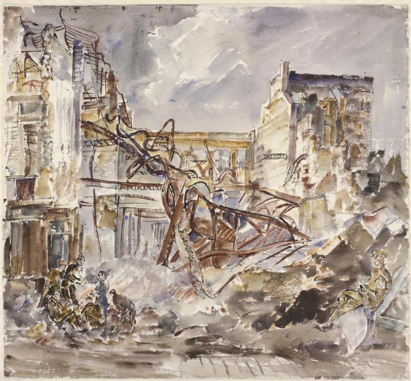 Galeries de Paris, Boulogne image: a group of British soldiers to the left, and a single British NCO to the right, sit amidst the rubble of the bomb damaged Galeries de Paris in Boulogne-sur-Mer in northern France. The building is a mass of twisted, rusty girders, the roof having completely collapsed.